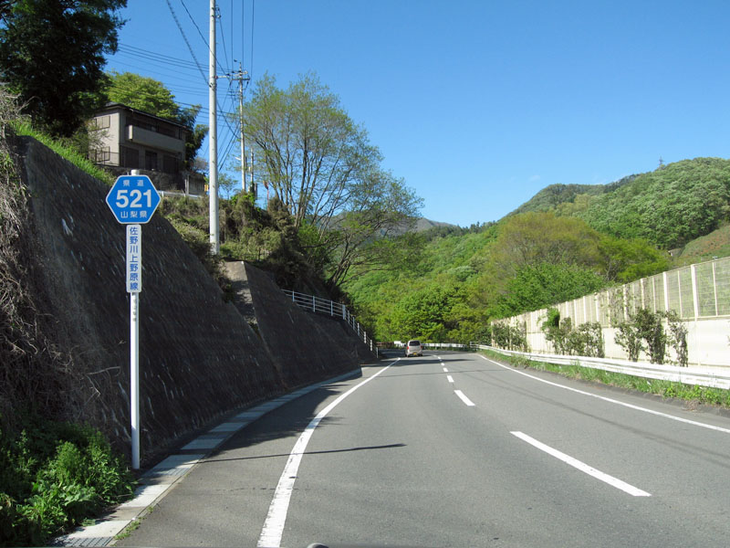 Yamanashi Pref. Rode 521 Uenohara-Hachioji Line (near origin), Uenohara, Yamanashi, Japan